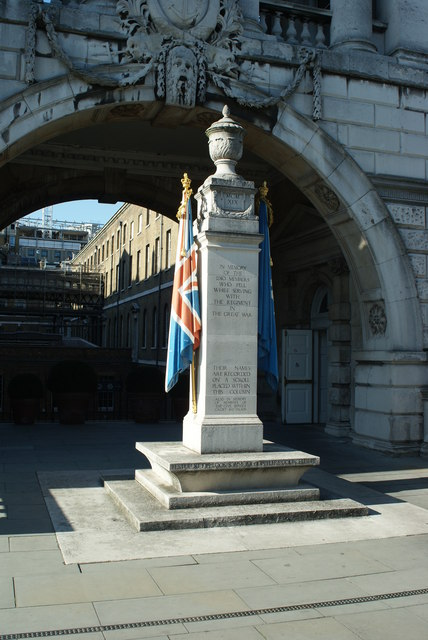 Memorial to the Civil Service Riflemen, Somerset House, London Commemorating 1240 members who fell during WWI.